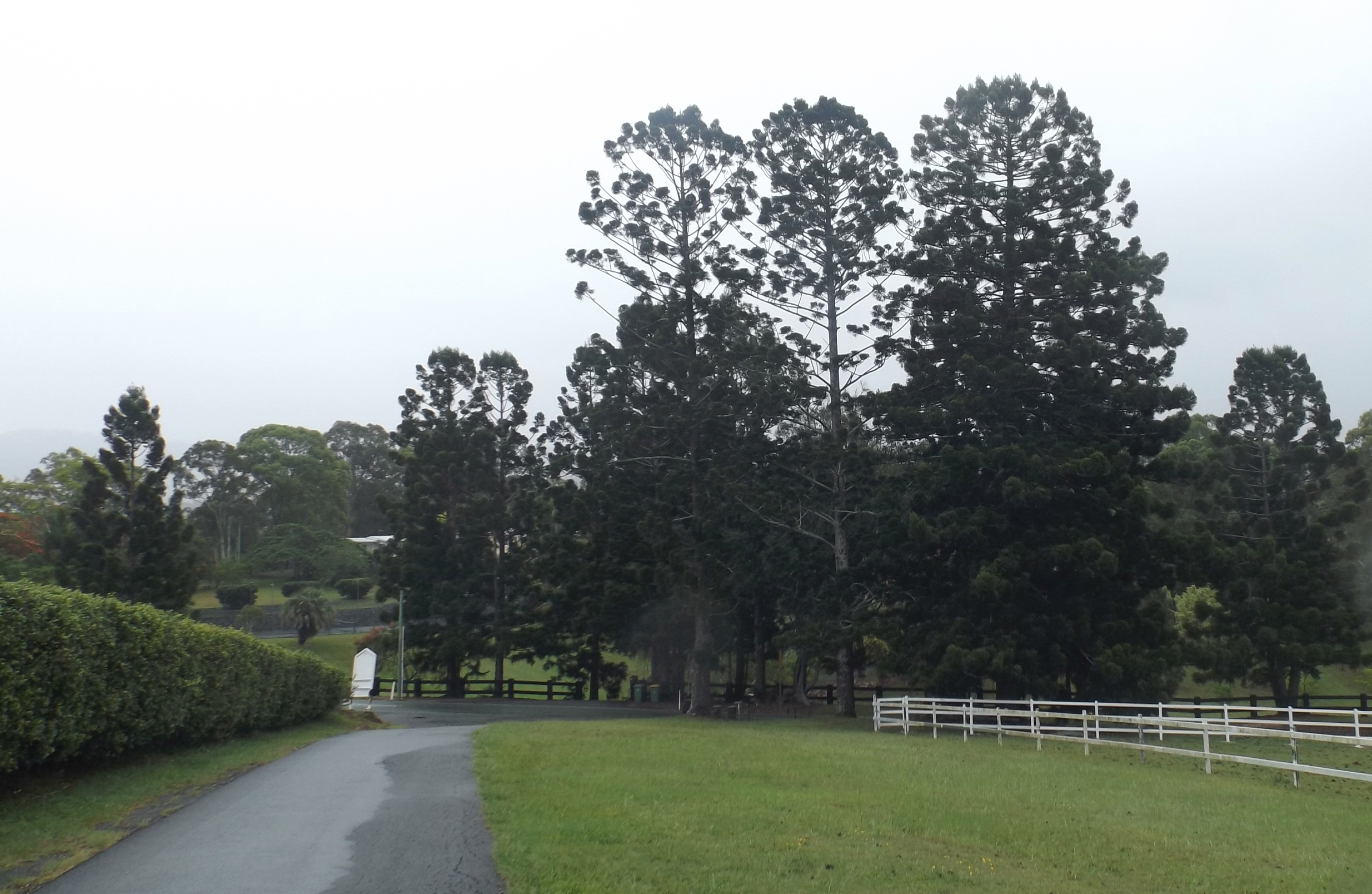 Photo of the Avenue of Commemorative Trees along Latimers Crossing Road at Advancetown, Gold Coast City, Queensland, Australia.